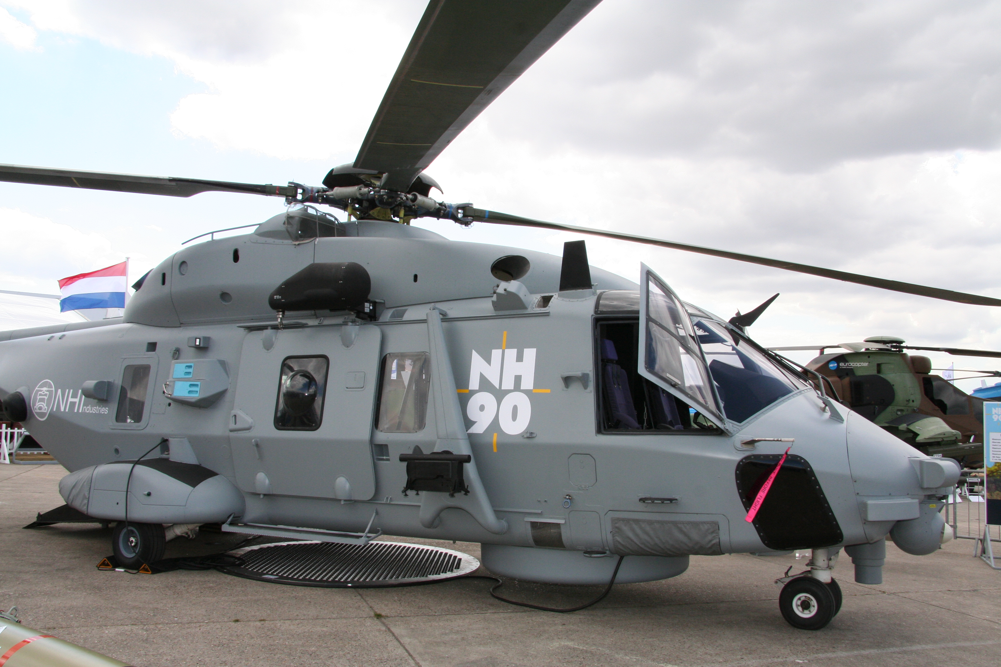 NHIndustries NH90 NFH (naval version) - Paris Air Show 2009